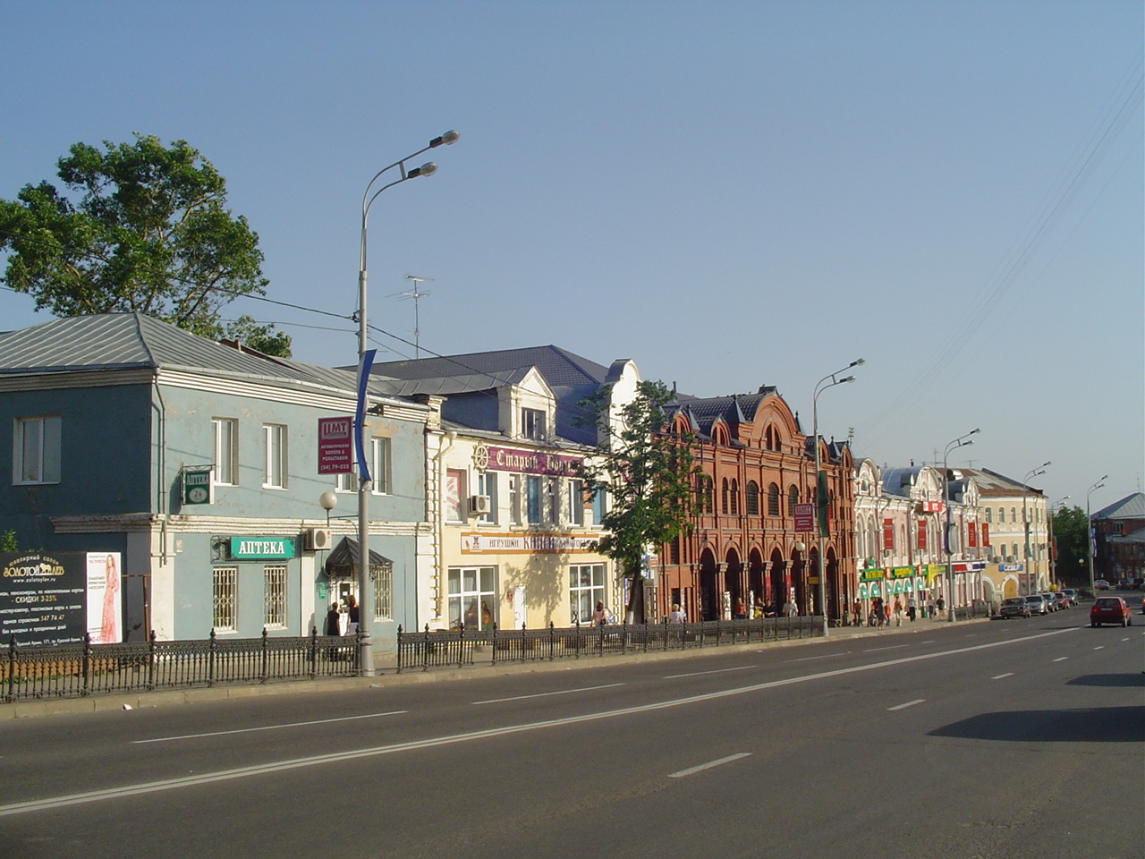 A street in the center of Sergiev Posad